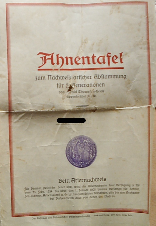 Genealogical table for evidence of Aryan ancestry for five generations, used for Adolf Hitler‘s Holocaust (persecution of Jews).